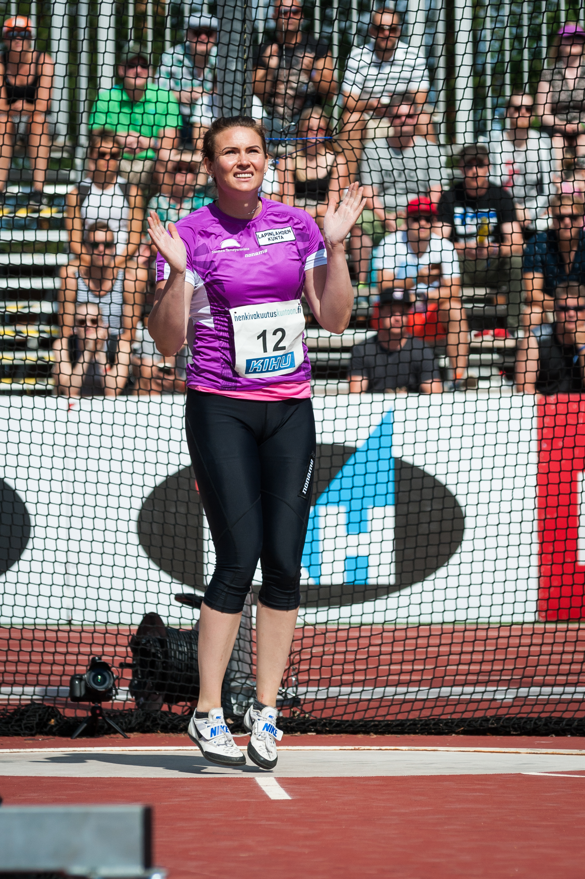 Women's discus throw competition at the 2018 Kalevan Kisat, the Finnish championships in athletics, in Jyväskylä, Finland.